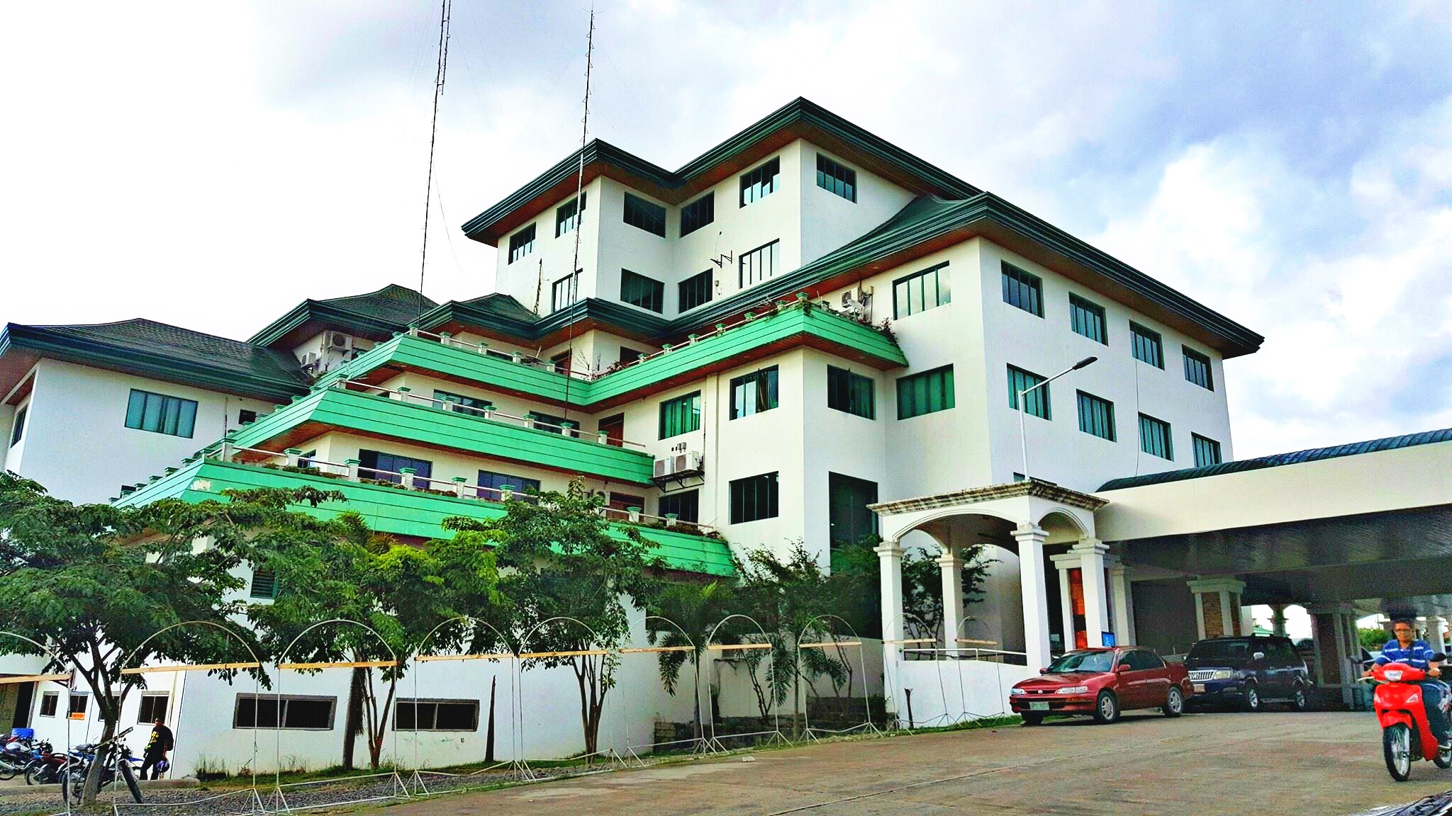 Tuguegarao City Hall